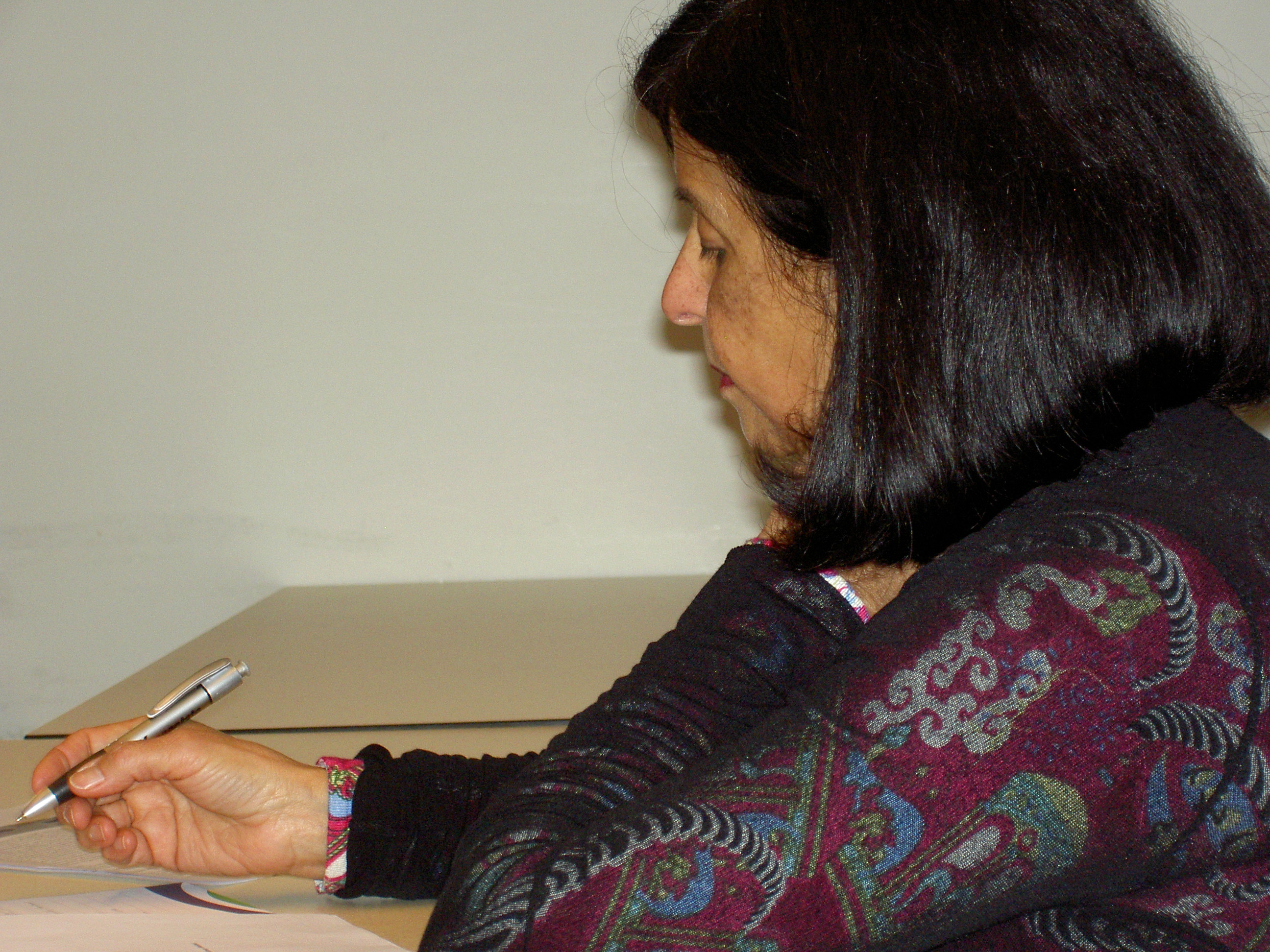 Ola Orman, poet, writer and narrator of Kompa Nanzi-stories, from Aruba, Picture taken in Amsterdam at the University of Amsterdam, April 14th 2008